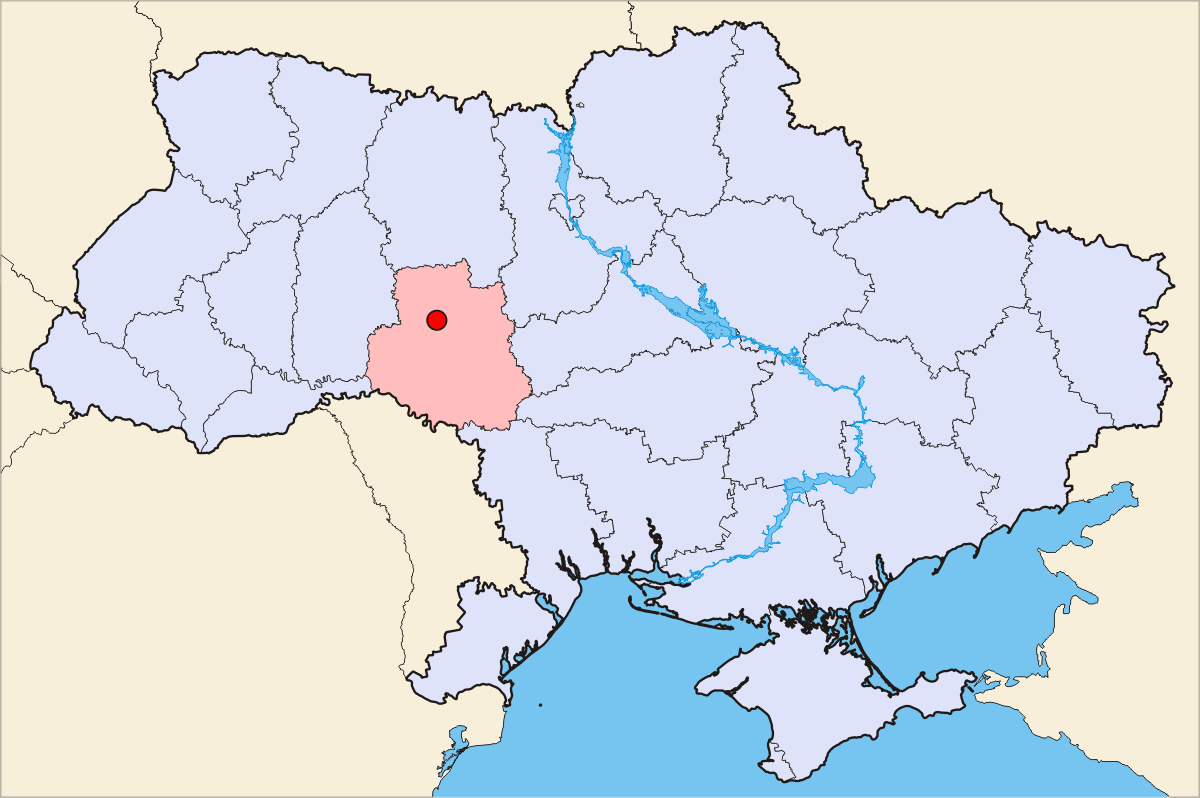 Description = Vinnytsia geographical position Source = own work, Skluesener Date = 20.01.2006 Author = Skluesener Credits = Colours chosen according to a map of steschke